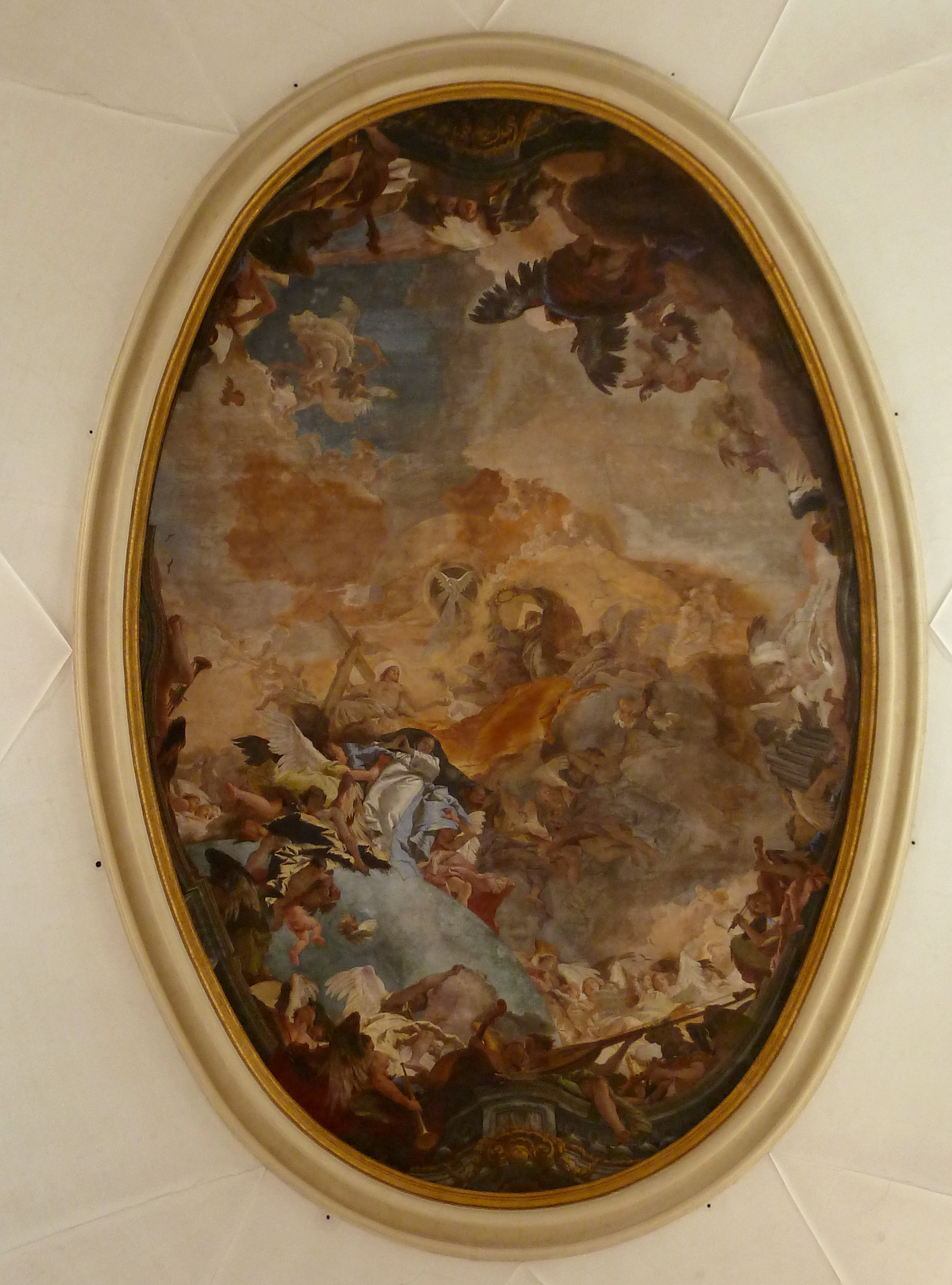 "Coronation of Mary", Santa Maria della pietà in Venice, ceiling.